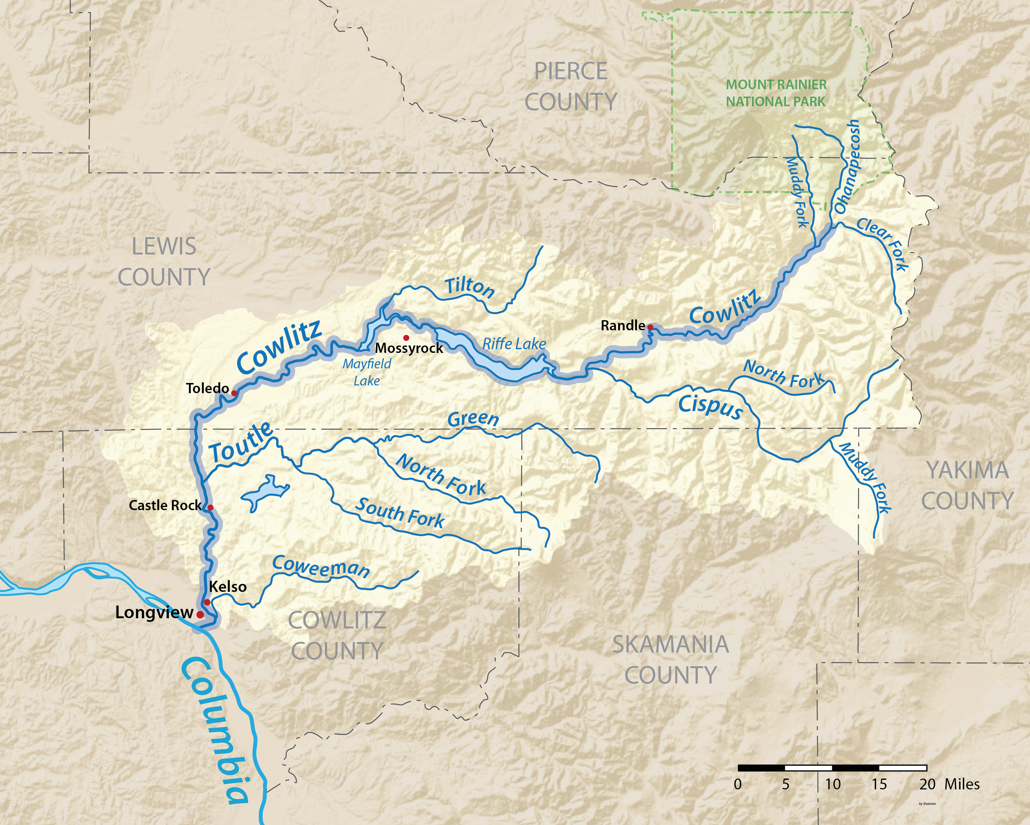 Map of the Cowlitz River watershed in Washington, USA. Made using USGS National Map data.